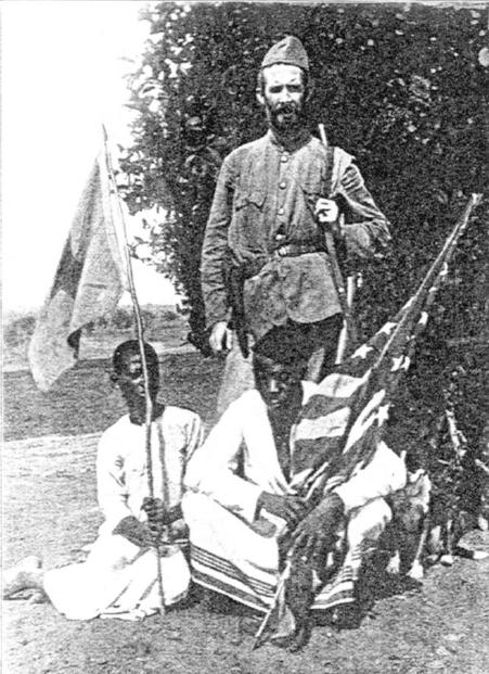 Richard Dorsey Mohun (standing) in Congo with flags of the Congo Free State (at left) and the United States held by two native colour bearers.